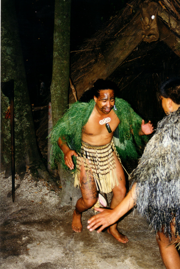 Tourist performance: Māori cultural performer at a tourist show, Tamaki Maori Village, south of Rotorua, New Zealand.